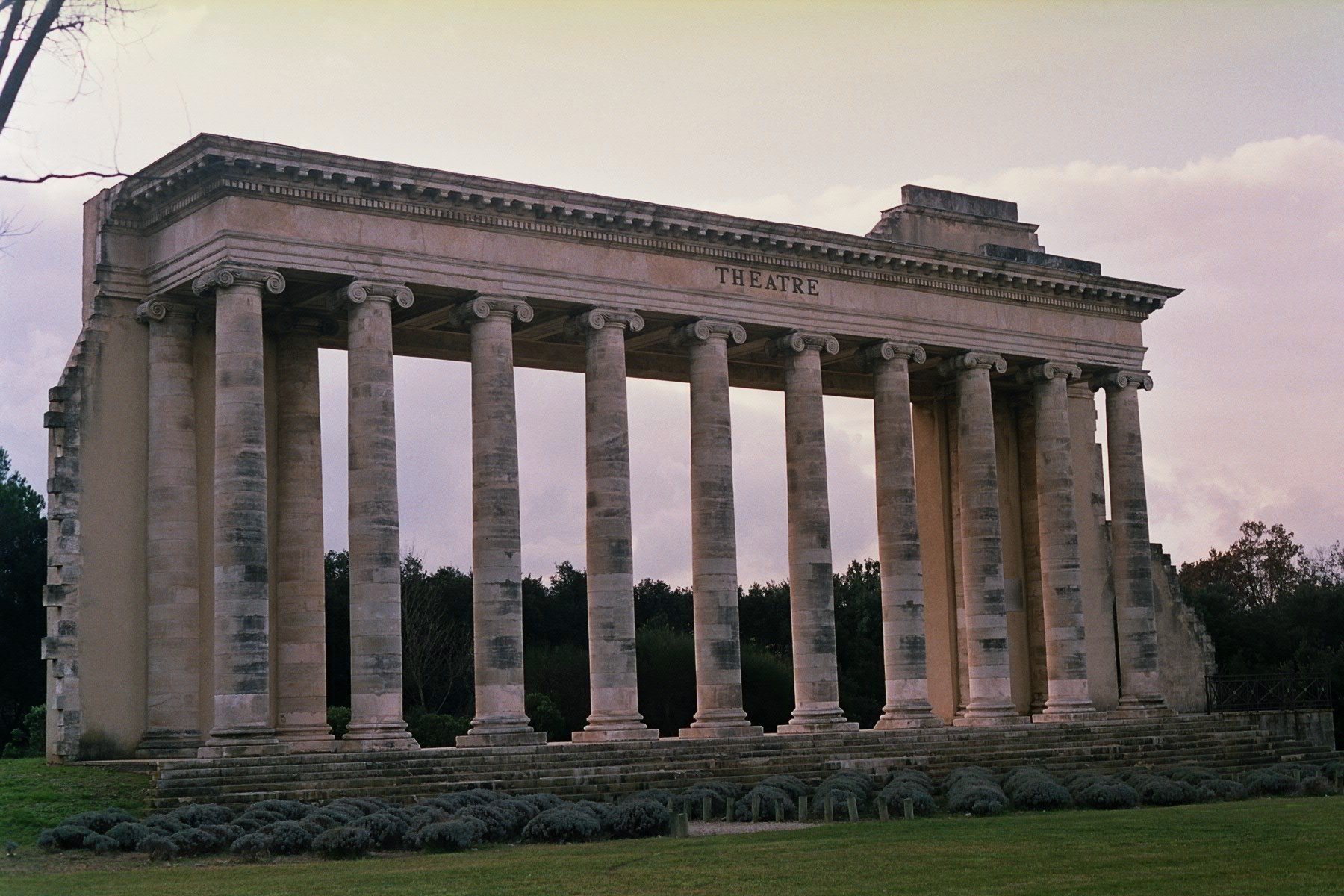 Nîmes' old theatre burned down in 1952. What was left of it was removed to the highway rest stop of Caissargues, not far from the city itself.